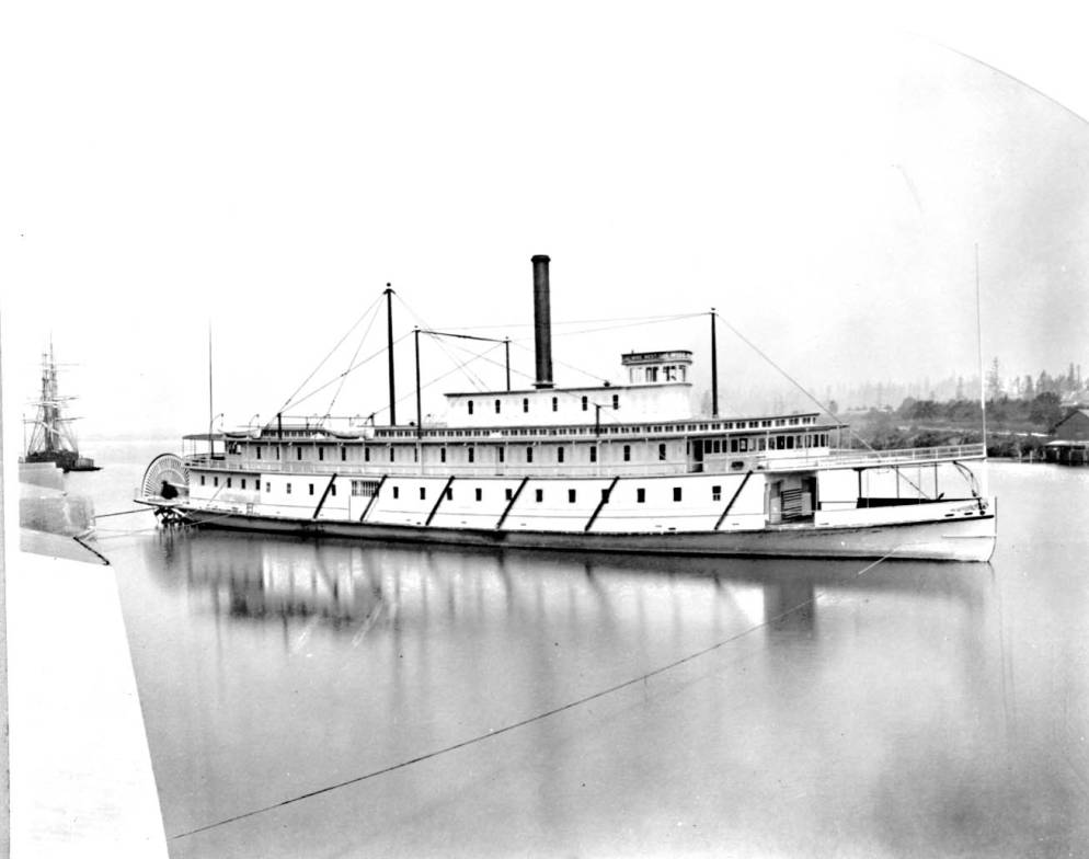 Steamer Wide West circa 1880, moored somewhere on the Willamette or Columbia rivers.